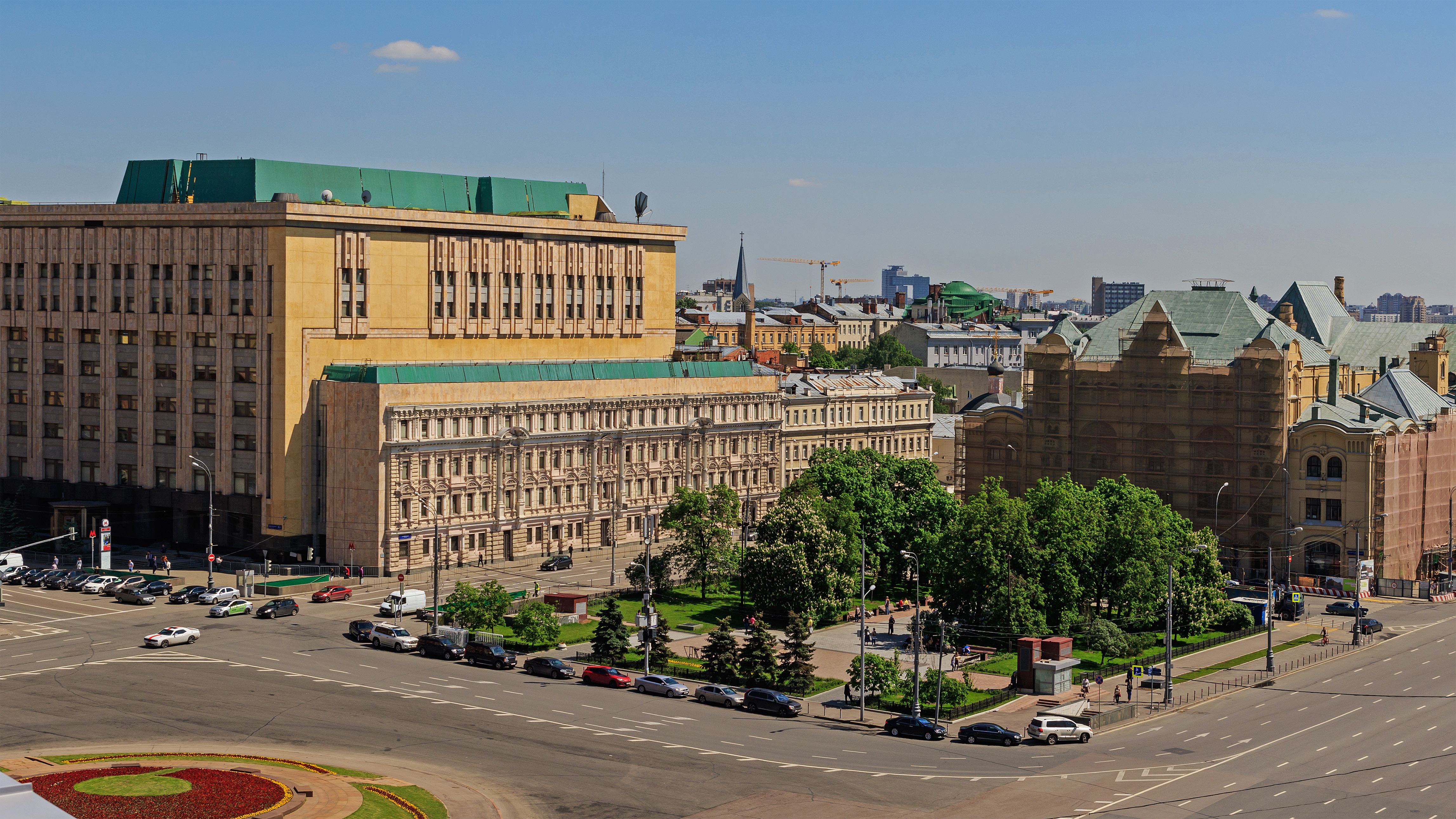 View from the Panoramic view point of the Central Children’s Store at Lubyanka Square in Moscow